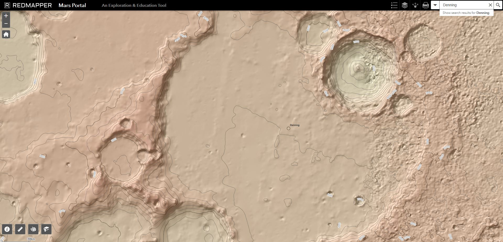 A topographic map created using Mars Orbiter Laser Altimeter (MOLA) data. This map shows the elevation of the central region of Denning crater relative to Martian areoid.